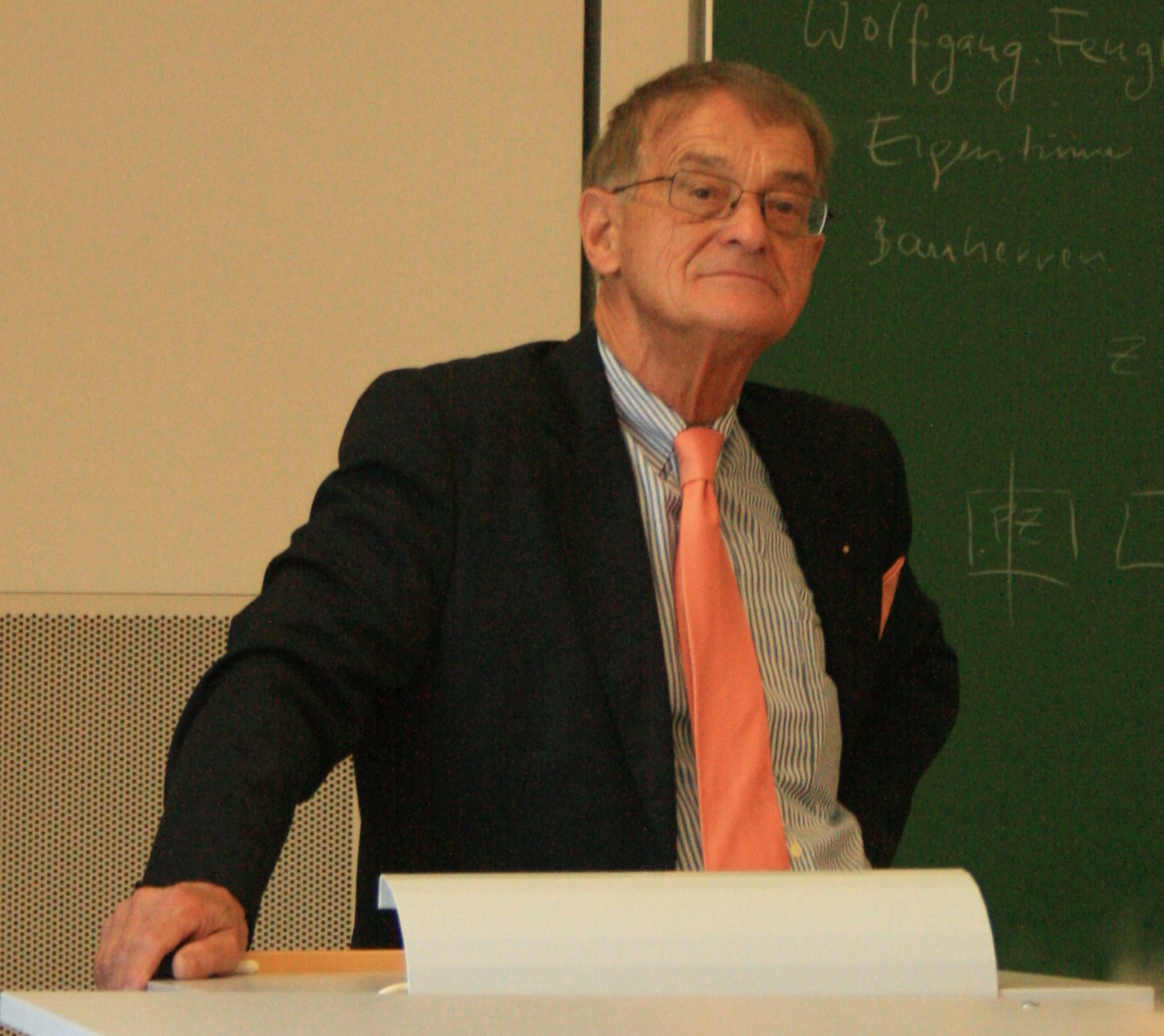 Siegfried Mängel during a lecture at the factulty for Transportation at Dresden University of Technology.